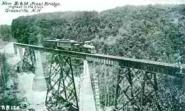 Boston & Maine Railroad trestle, Greenville, New Hampshire